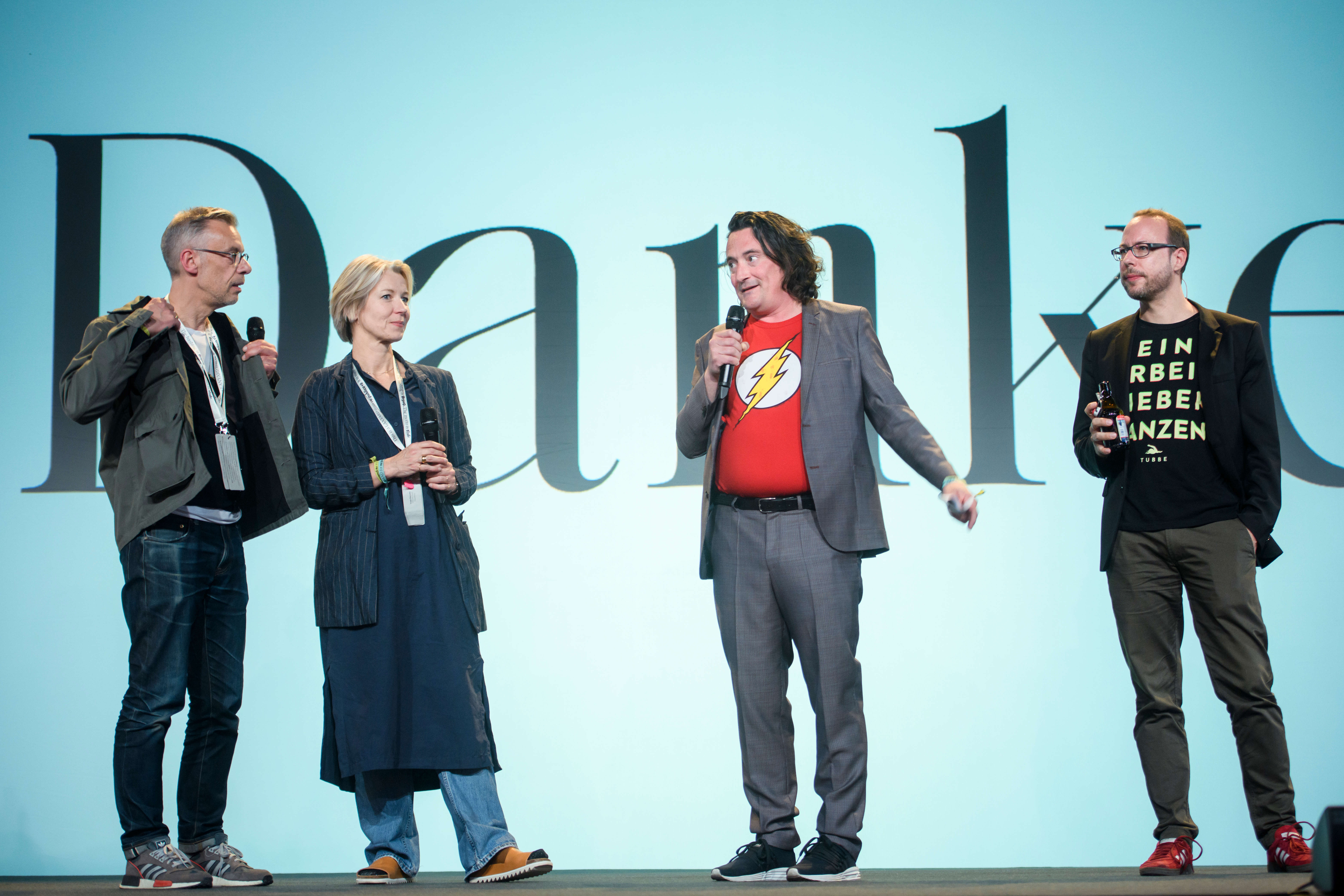 Closing Ceremony - see you next year Speaker: Markus Beckedahl, Andreas Gebhard, Tanja Haeusler, Johnny Haeusler